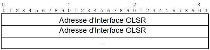 Datagramme MID